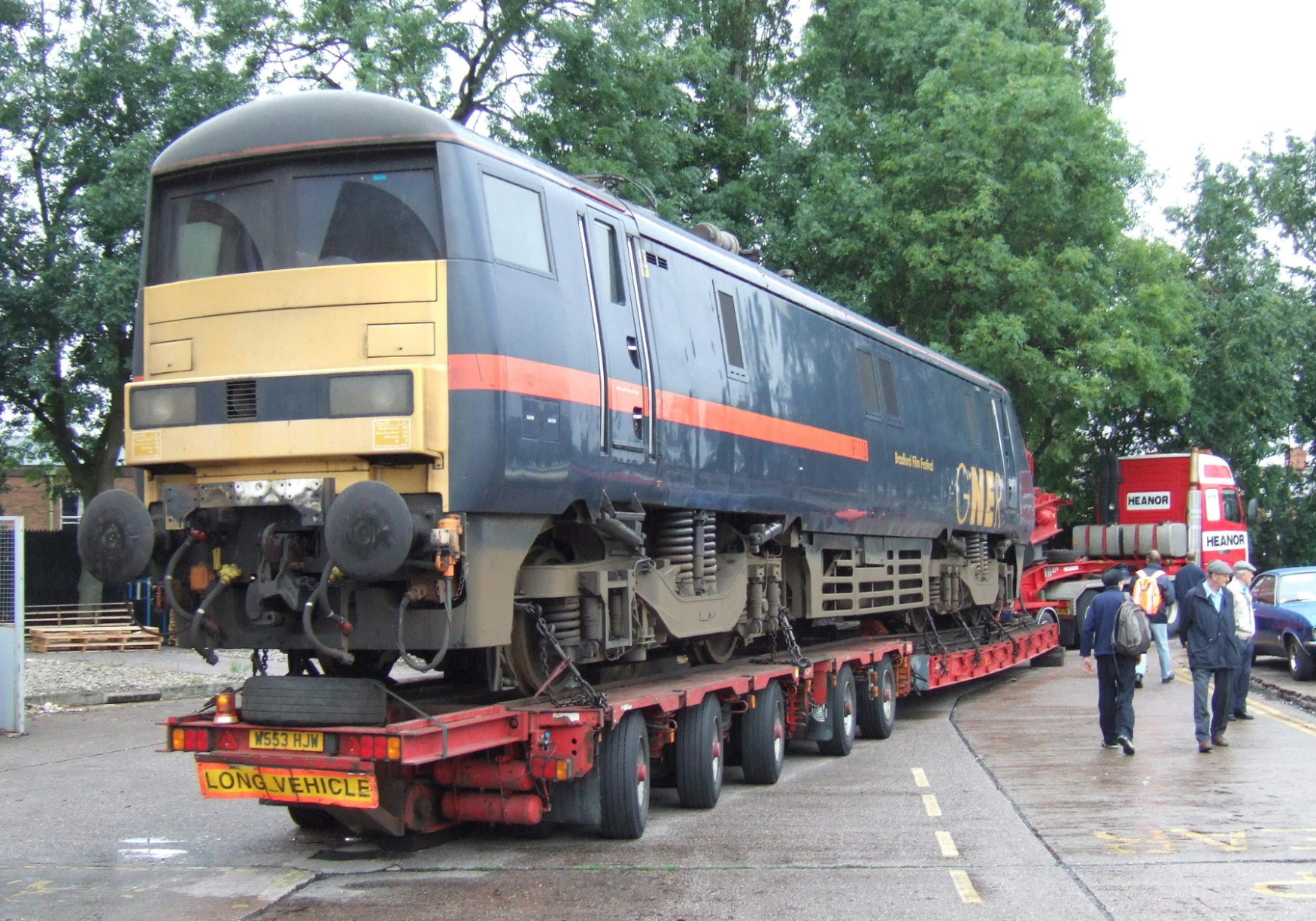 Crewe Works Openday. Blunt end of Class 91 on a lowloader. 10th September 2005 Photographer - A.M.Hurrell Camera - Fuji FinePix F10 Modified - Trimmed and file size reduced using Finepix Software